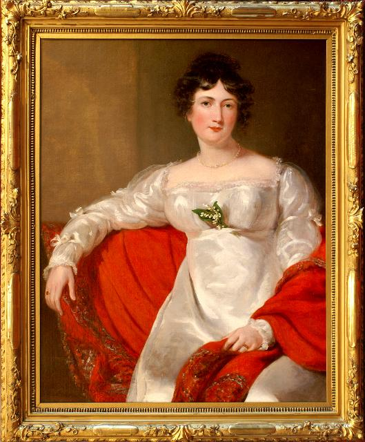 Thomas Lawrence (1769-1830) "Portrait of Mary Elizabeth Louisa Rodney (Carpenter) Lyon-Bowes (1783 - 1811) " Oil on Canvas 36" by 29" Private Collection.